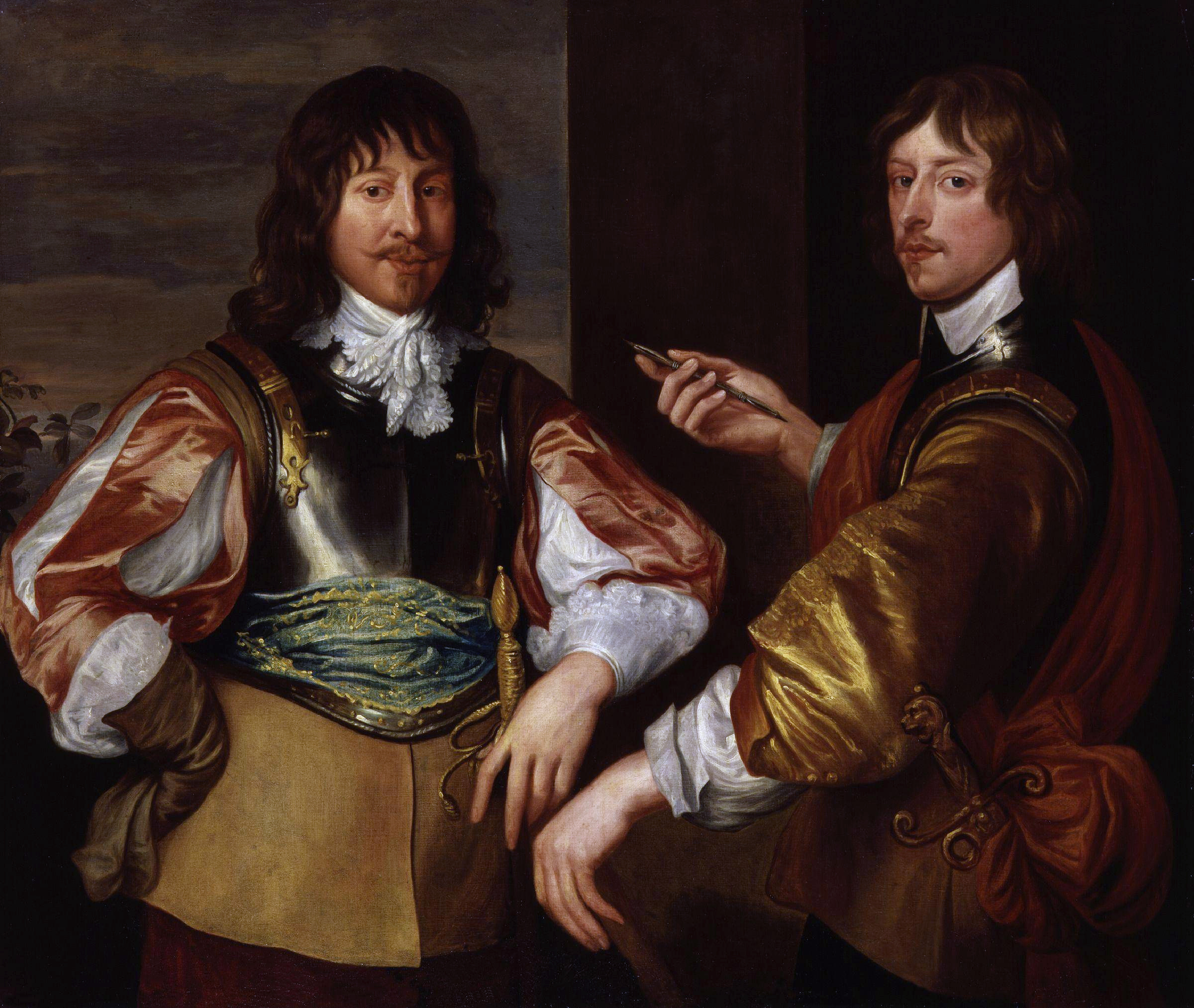 Mountjoy Blount, 1st Earl of Newport; George Goring, Baron Goring, afterSir Anthony Van Dyck (died 1641), given to the National Portrait Gallery, London in 1887. All images in this batch have been confirmed as author died before 1939 according to the official death date listed by the NPG.